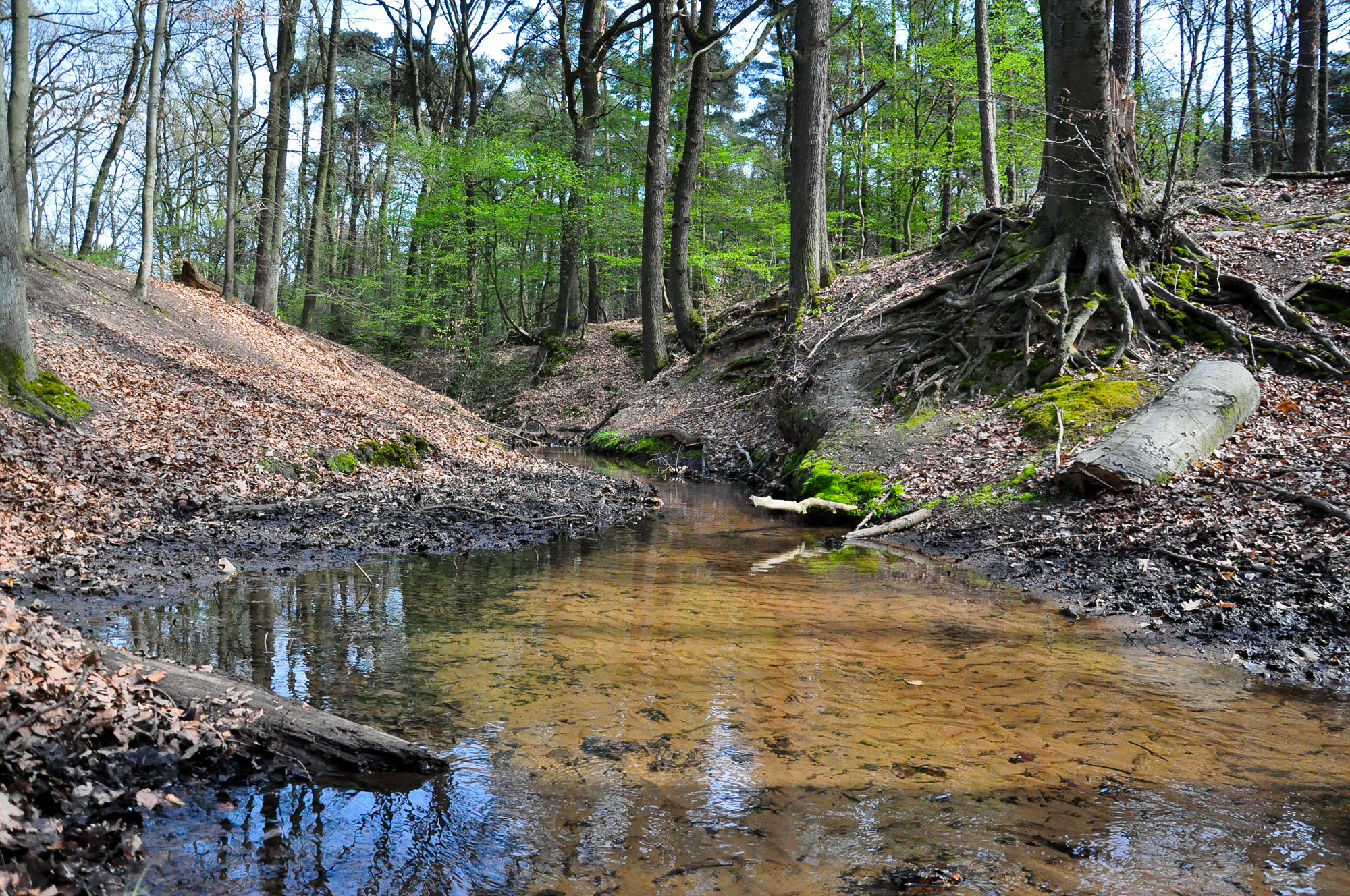 Sandbach ("sand stream") in "Hildener Stadtwald, Bereich Sandbach-Krebsbach" nature reserve in Hilden, North Rhine-Westphalia, Germany